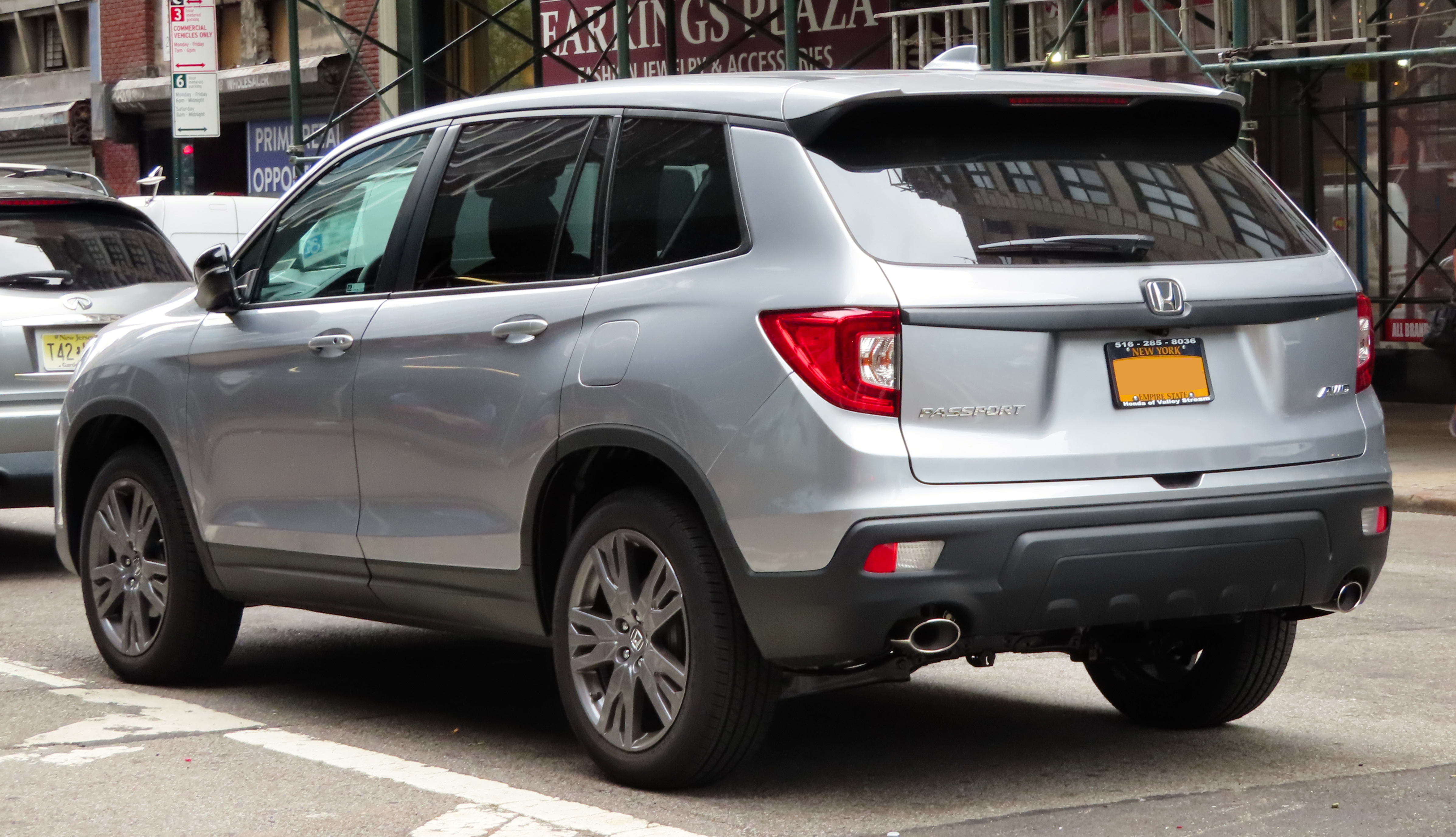 A 2019 Honda Passport EX-L photographed in Manhattan, New York, USA